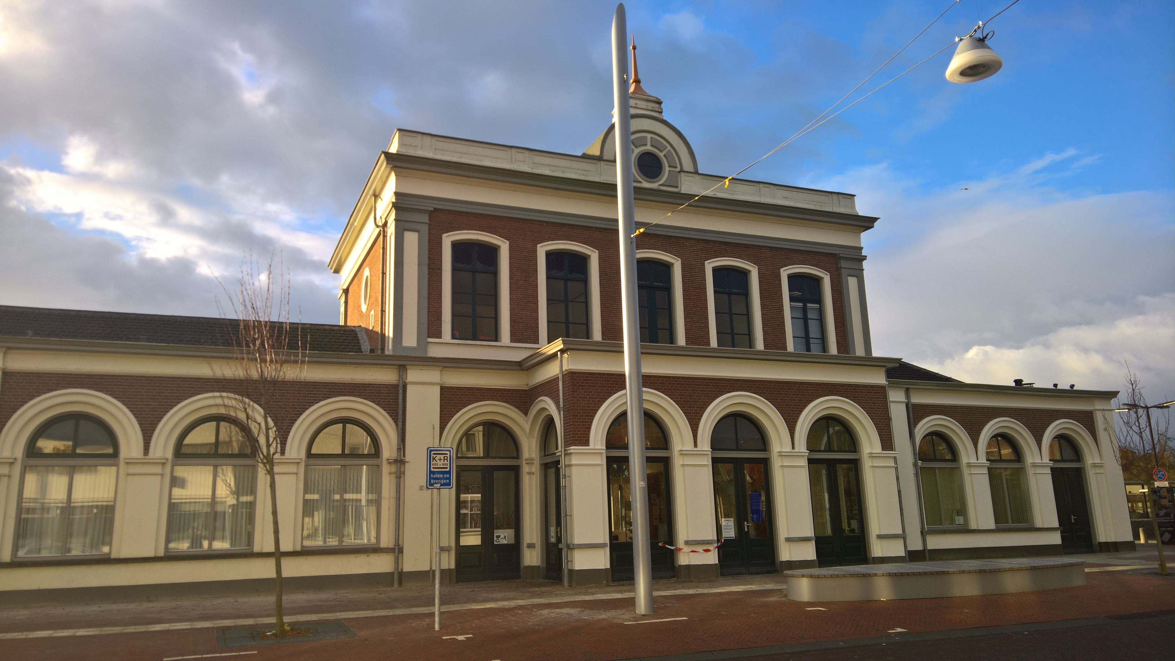 The Winschoten Railway 🛤 Station 🚉 in the year of 2017.